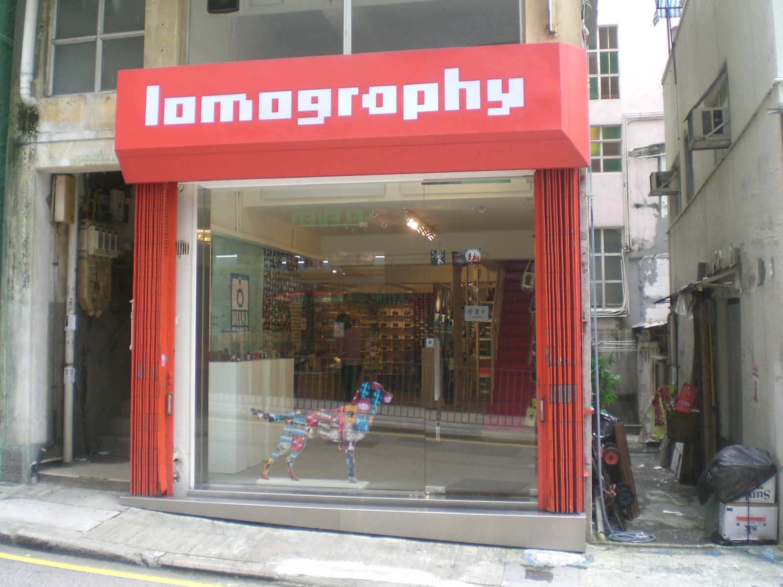 LOMO公司 Shop @ 普仁街